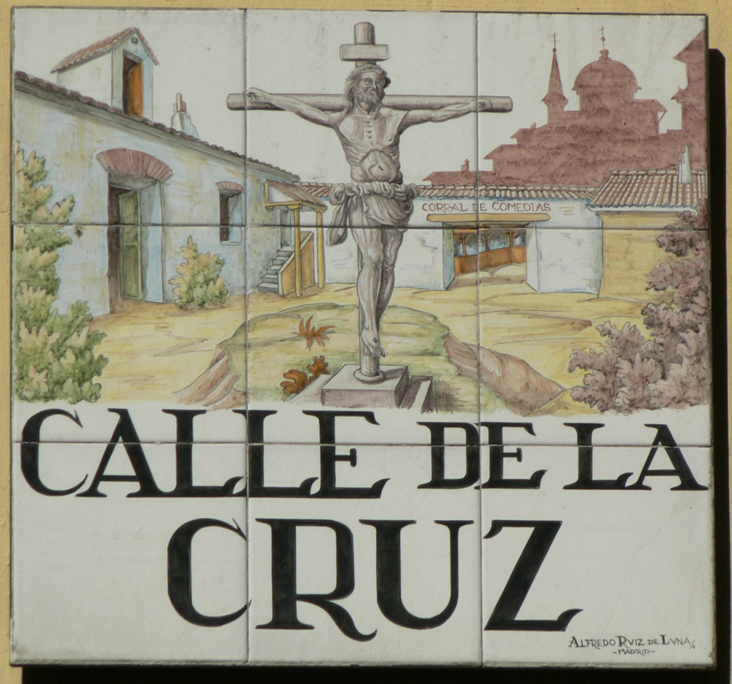 Sign of Calle de la Cruz (street, Centro district) in Madrid (Spain).